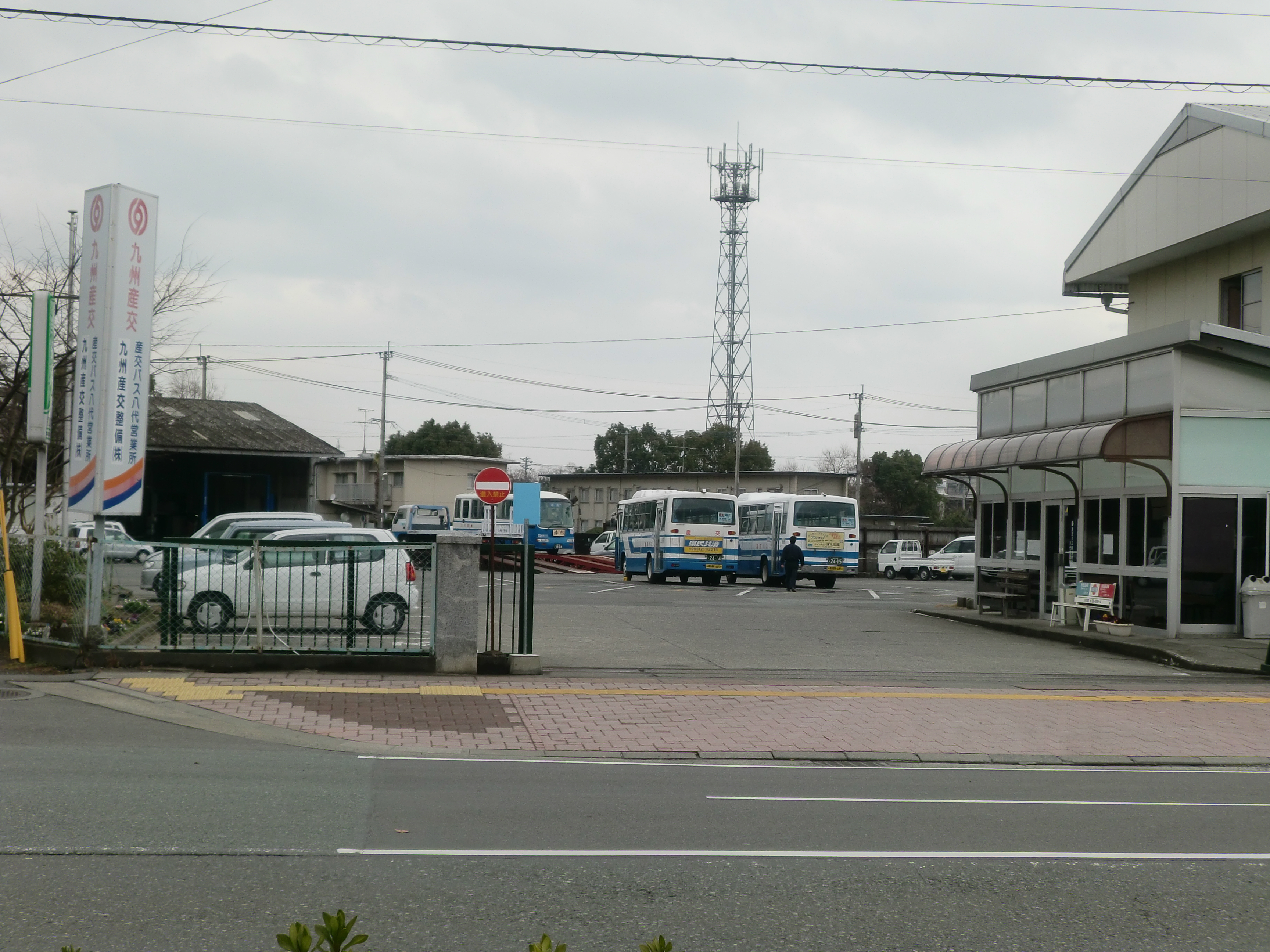 Sanko Bus Yatsushiro Depot